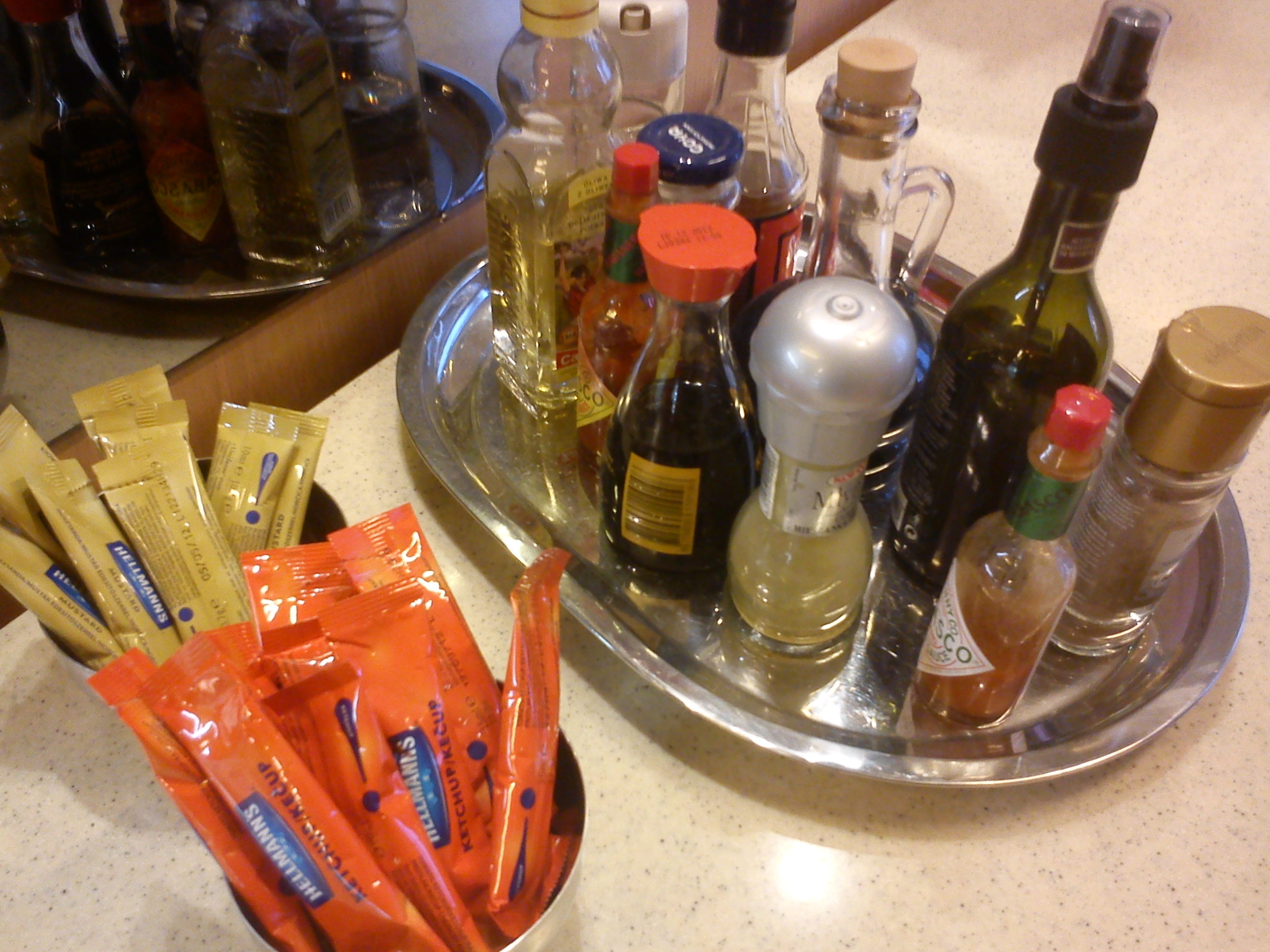 A typical set of spices served in hotels. Kit served in Poland (2011).